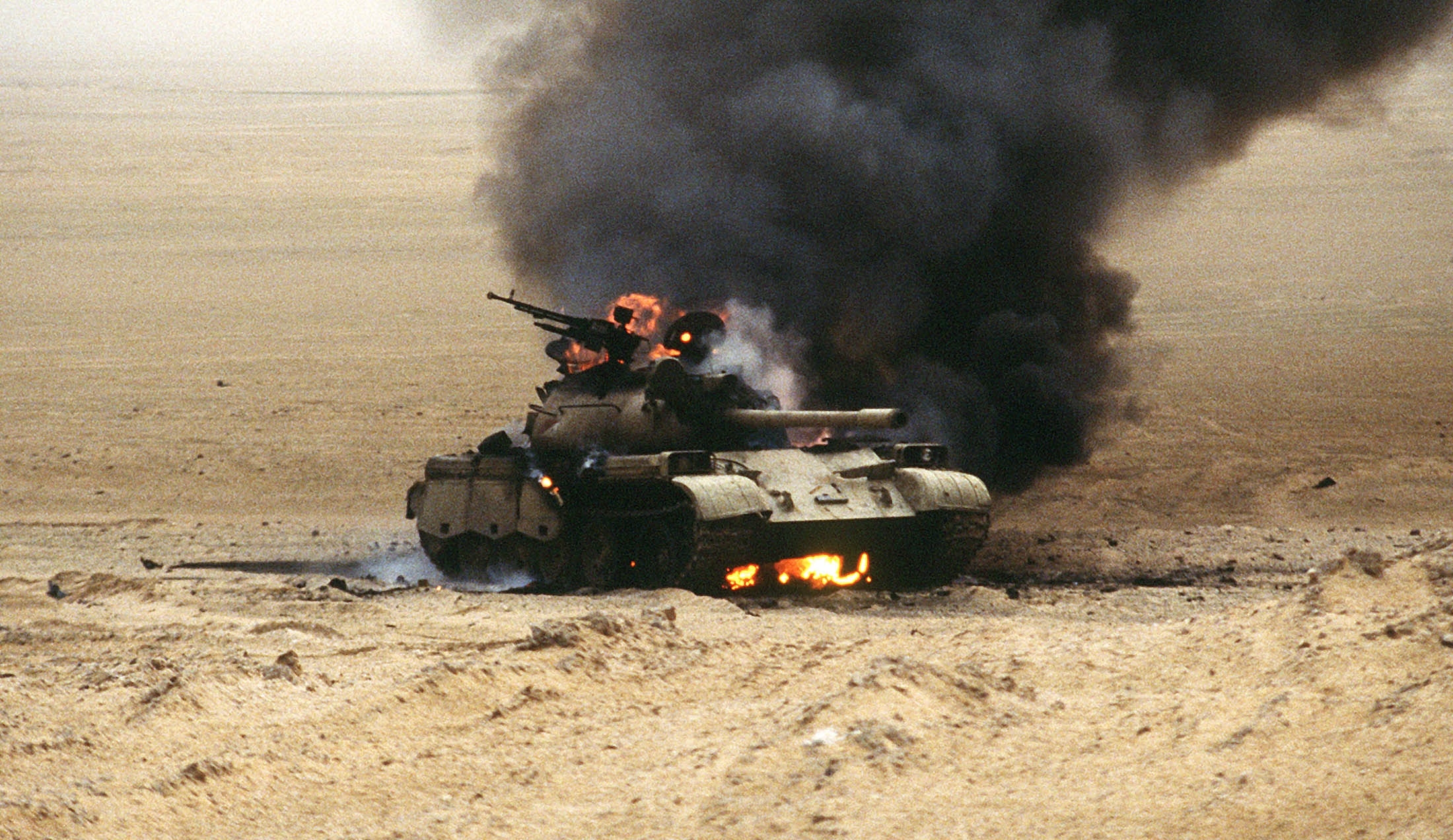 An Iraqi Type 69 main battle tank burns after an attack by the 1st United Kingdom Armored Division during Operation Desert Storm.